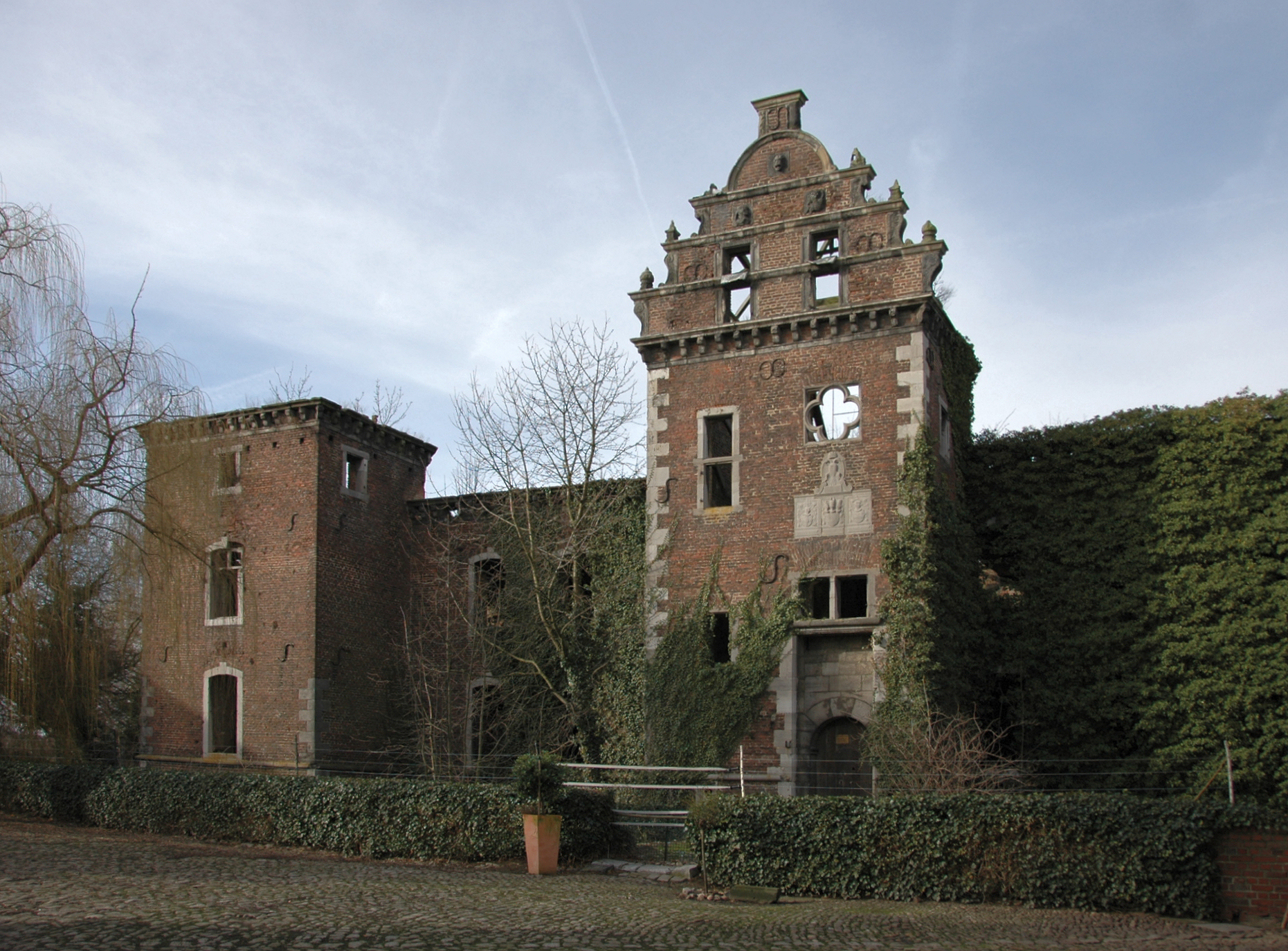 Ruin of the Teutonic Order commandry in Aldenhoven-Siersdorf, eastern aspect